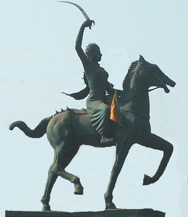 Equestrian statue of Jhansi Maharani Laxmi Bai, Agra, UP, India. Photograph taken December 2005 by SK Desai. Original Image , Image is cleaned, and background noise is removed.